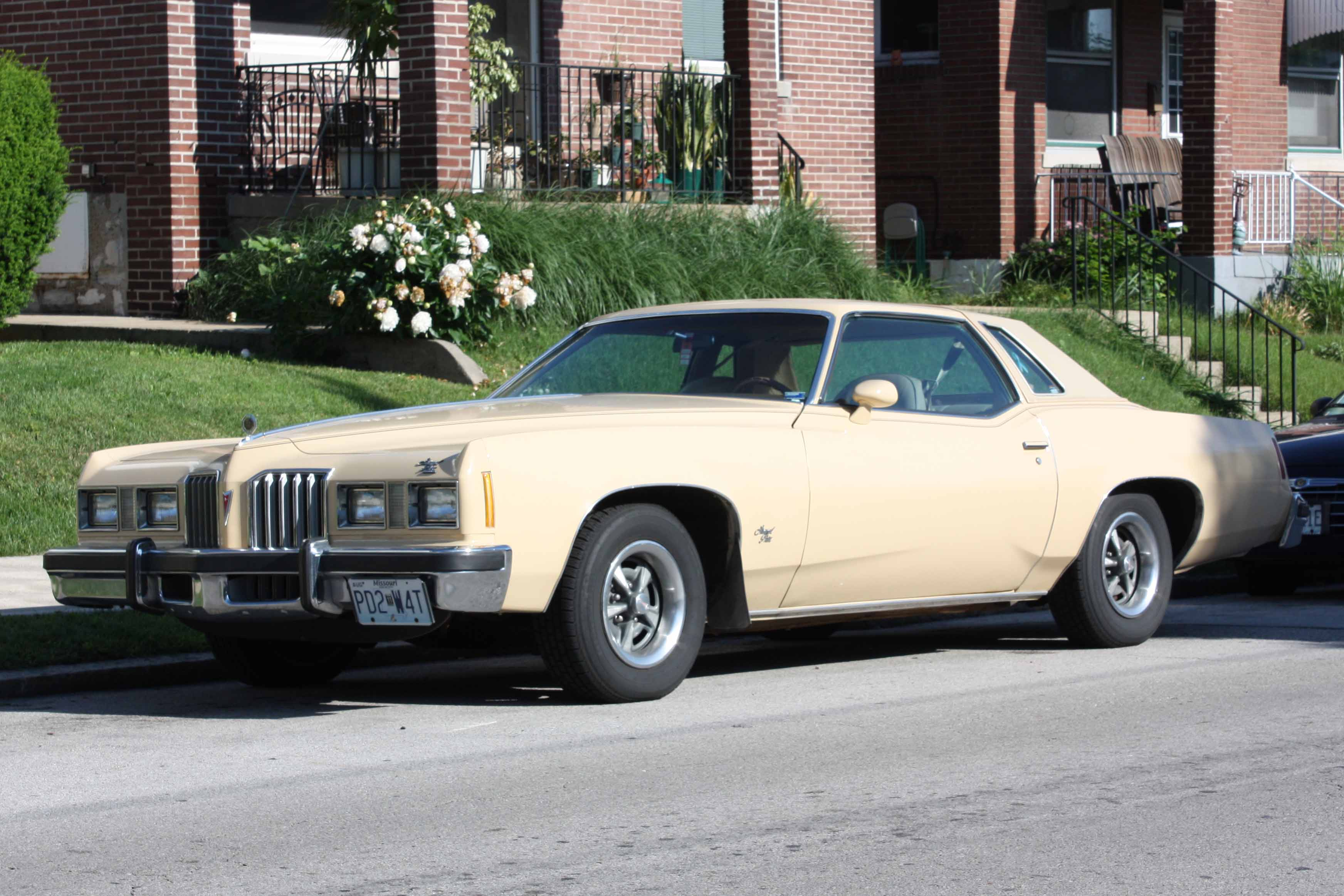 Pontiac Grand Prix (1977); Base model with optiionaal landau roof and Rally II wheels